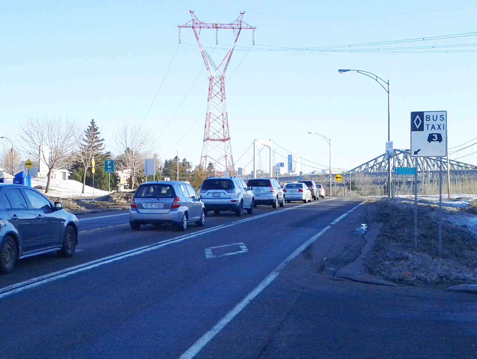 A bus lane on the route du Pont (Quebec Route 116), near the Quebec and Pierre-Laporte bridges (in background), in the Saint-Nicolas neighborhood of Lévis, Quebec.